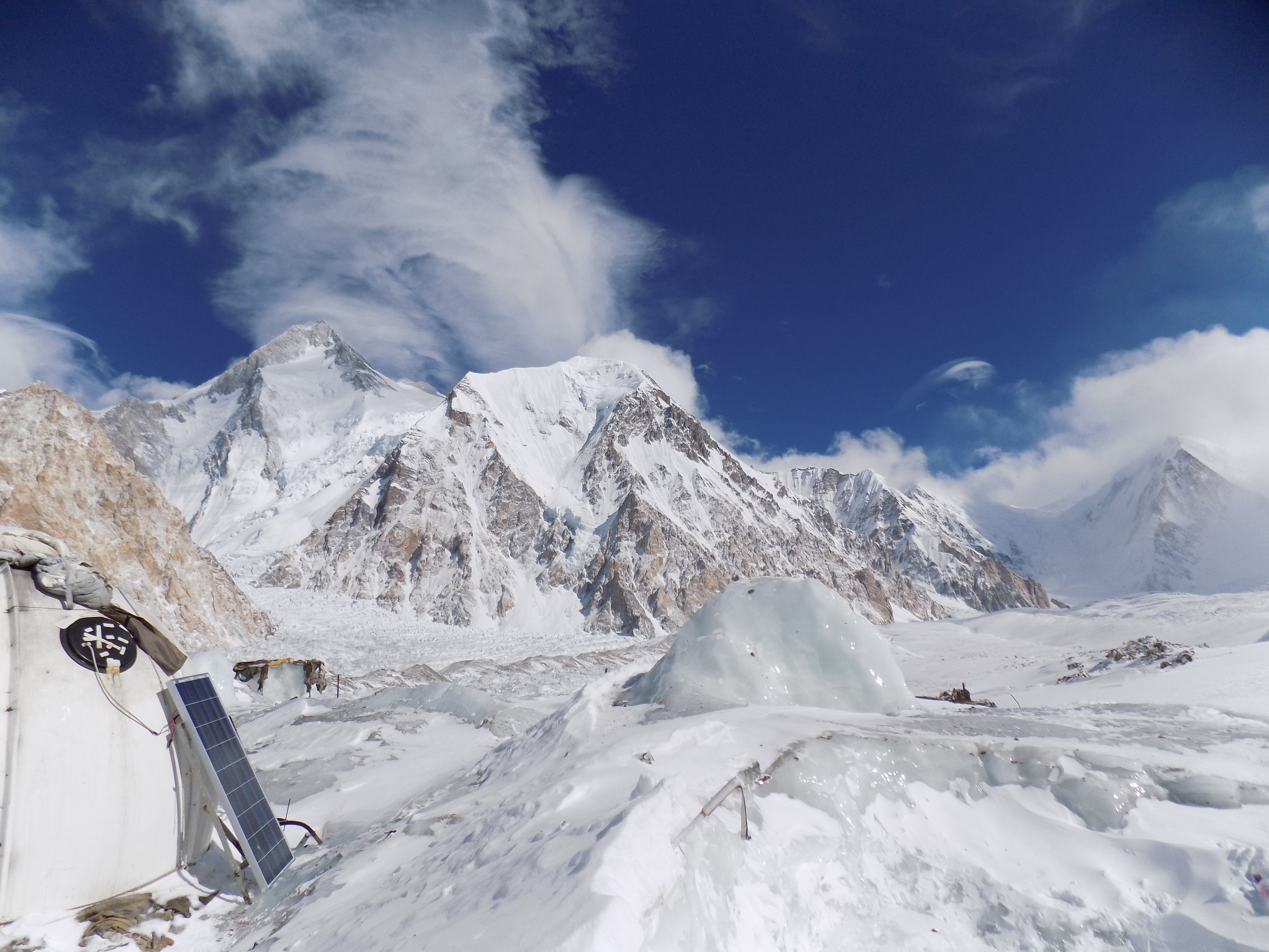 Gasheberum mountain series in Karakorum. G1 can be seen clearly